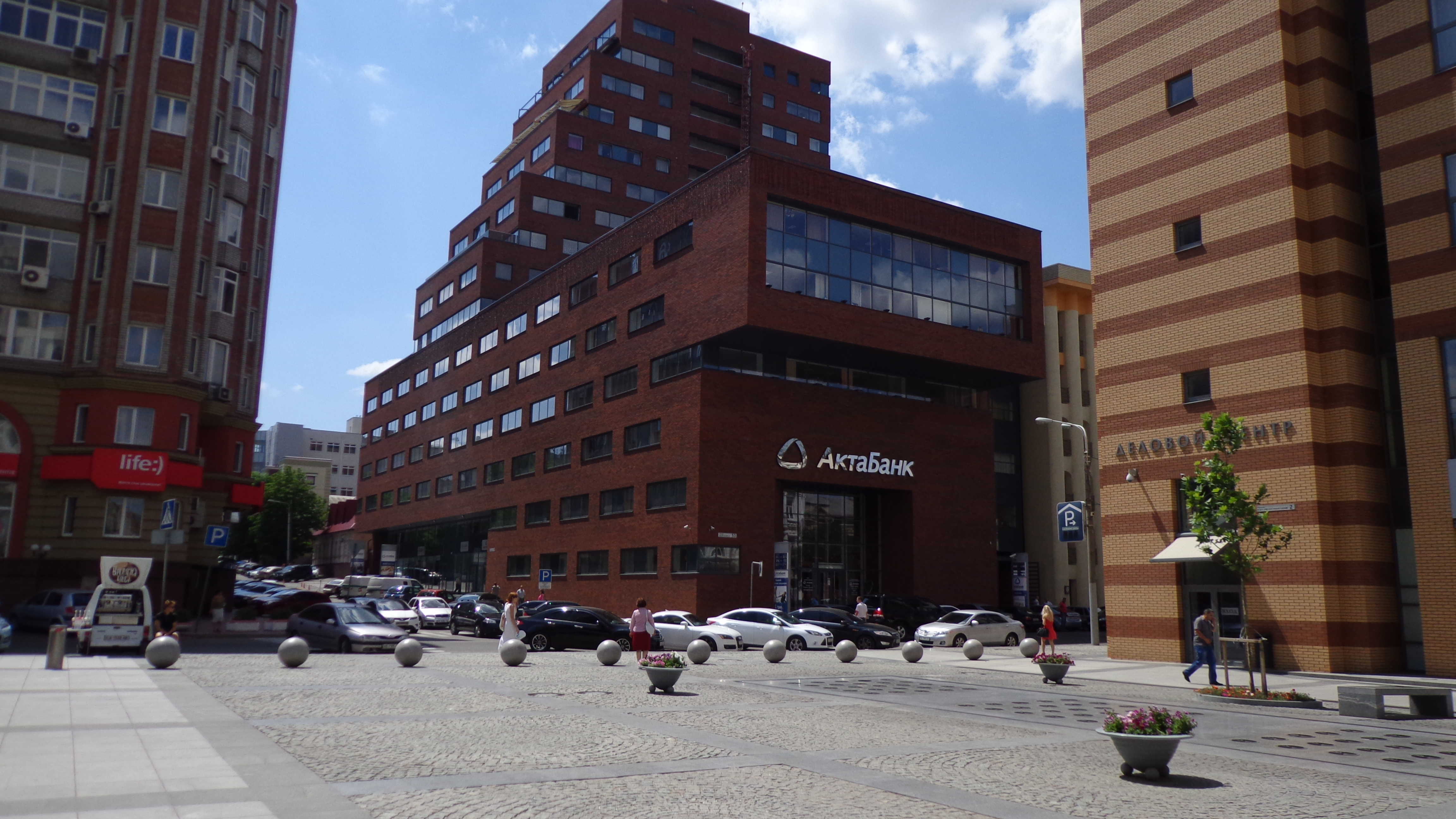 AktaBank Headquarter in Dnipropetrowsk